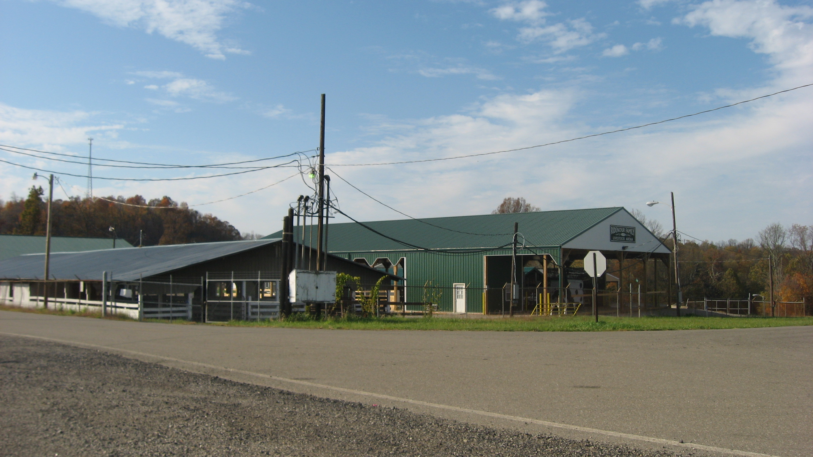 Buildings at the Meigs County Fairgrounds, located northeast of the junction of U.S. Route 33 and State Route 7 in Salisbury Township, Meigs County, Ohio, United States. The fairgrounds complex is listed on the National Register of Historic Places.